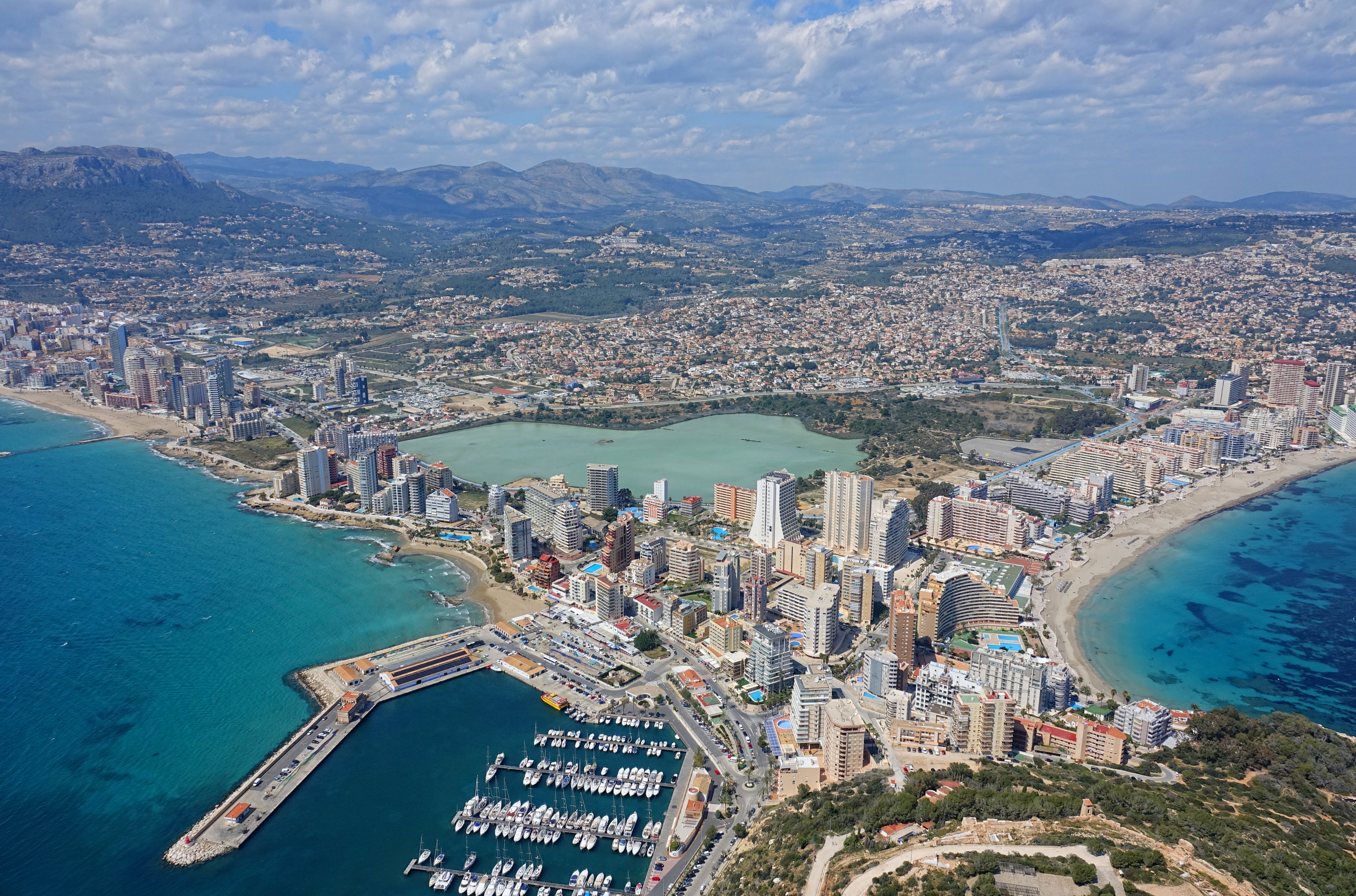 Calp as seen from the top of the Pico de peñón de Ifach, a tall cliff south-east of the town.